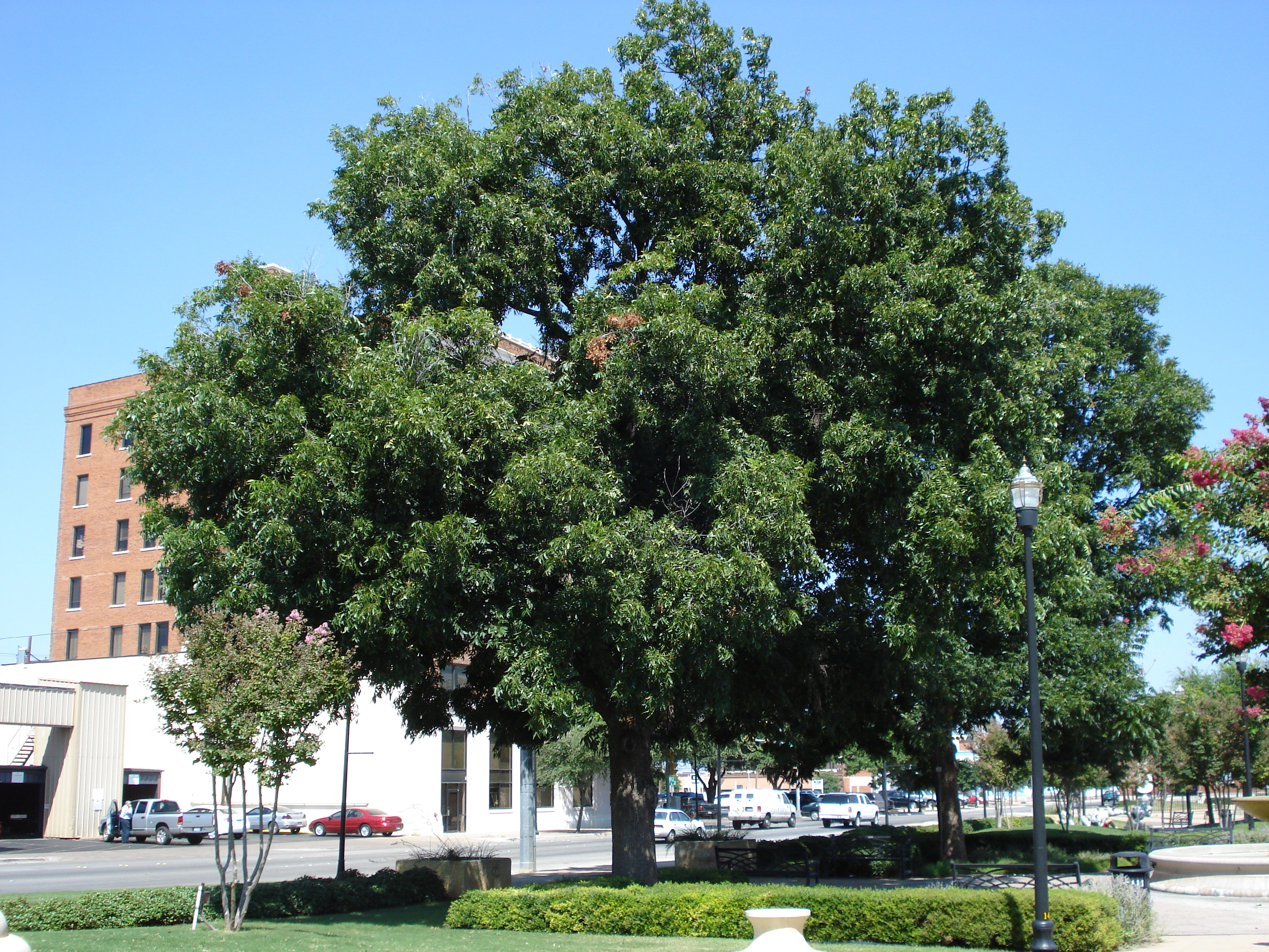 A pecan tree in Everman Park in Abilene, Texas, United States